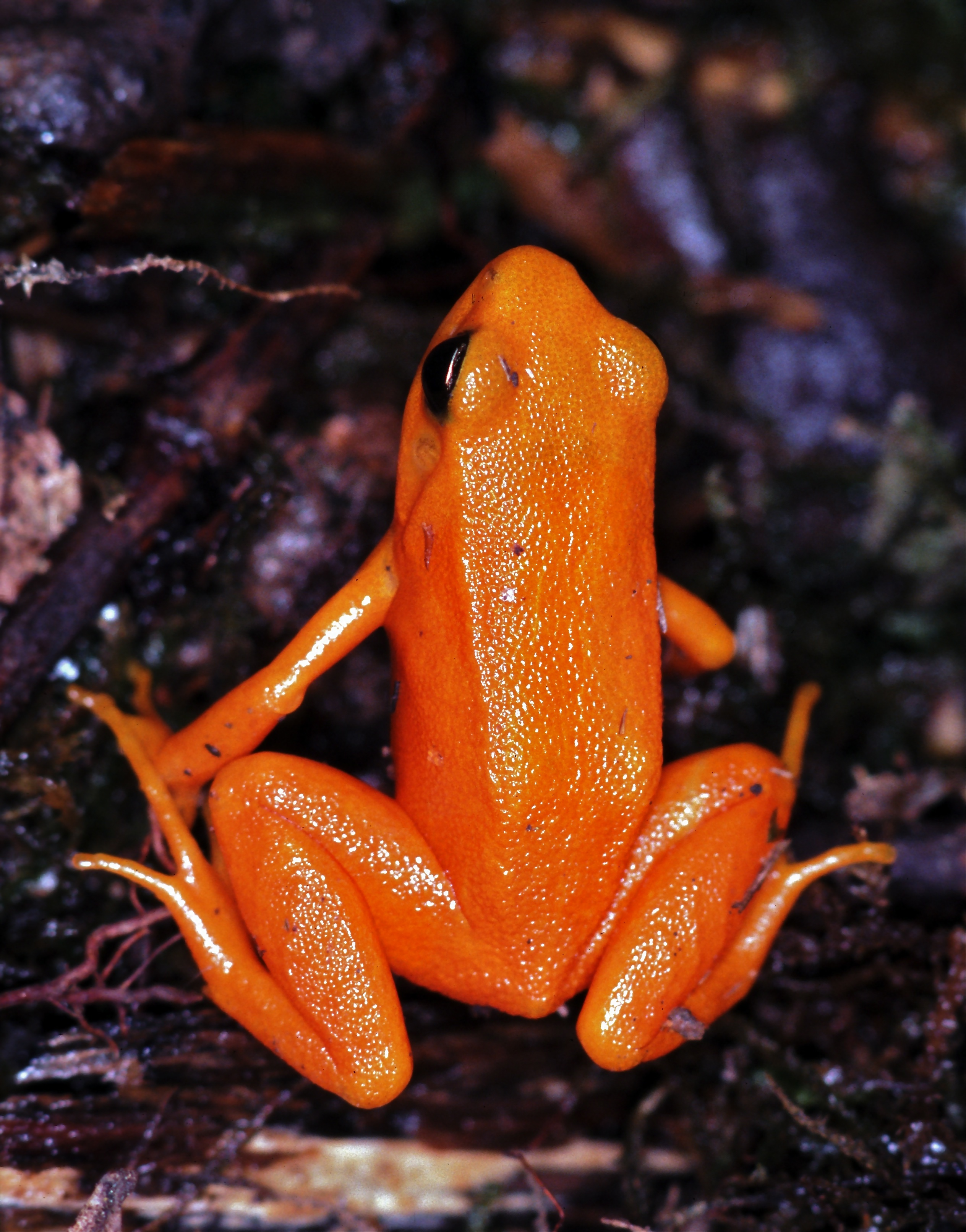 Réserve Peyrieras, Moramanga, MADAGASCAR Scanned Slide from 2004